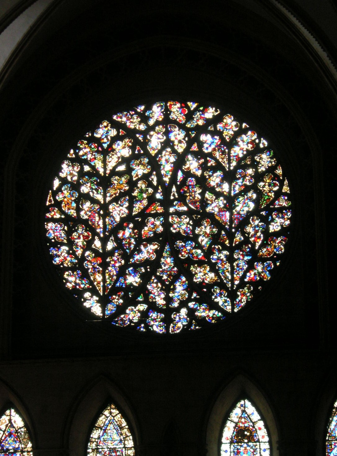 England, Lincoln Cathedral, the South Transept window, known as the Bishops eye and filled with medieval fragments of glass